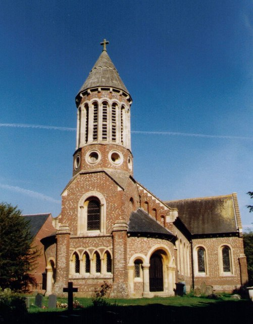 Church of England parish church of St Mary the Virgin, Burghfield, Berkshire